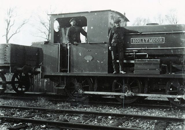 Peckett and Sons 0-6-0 saddle tank locomotive named "Hollymoor" 'Hollymoor' at the Exchange Sidings, c1905 Image courtesy of Bourne Hall Museum